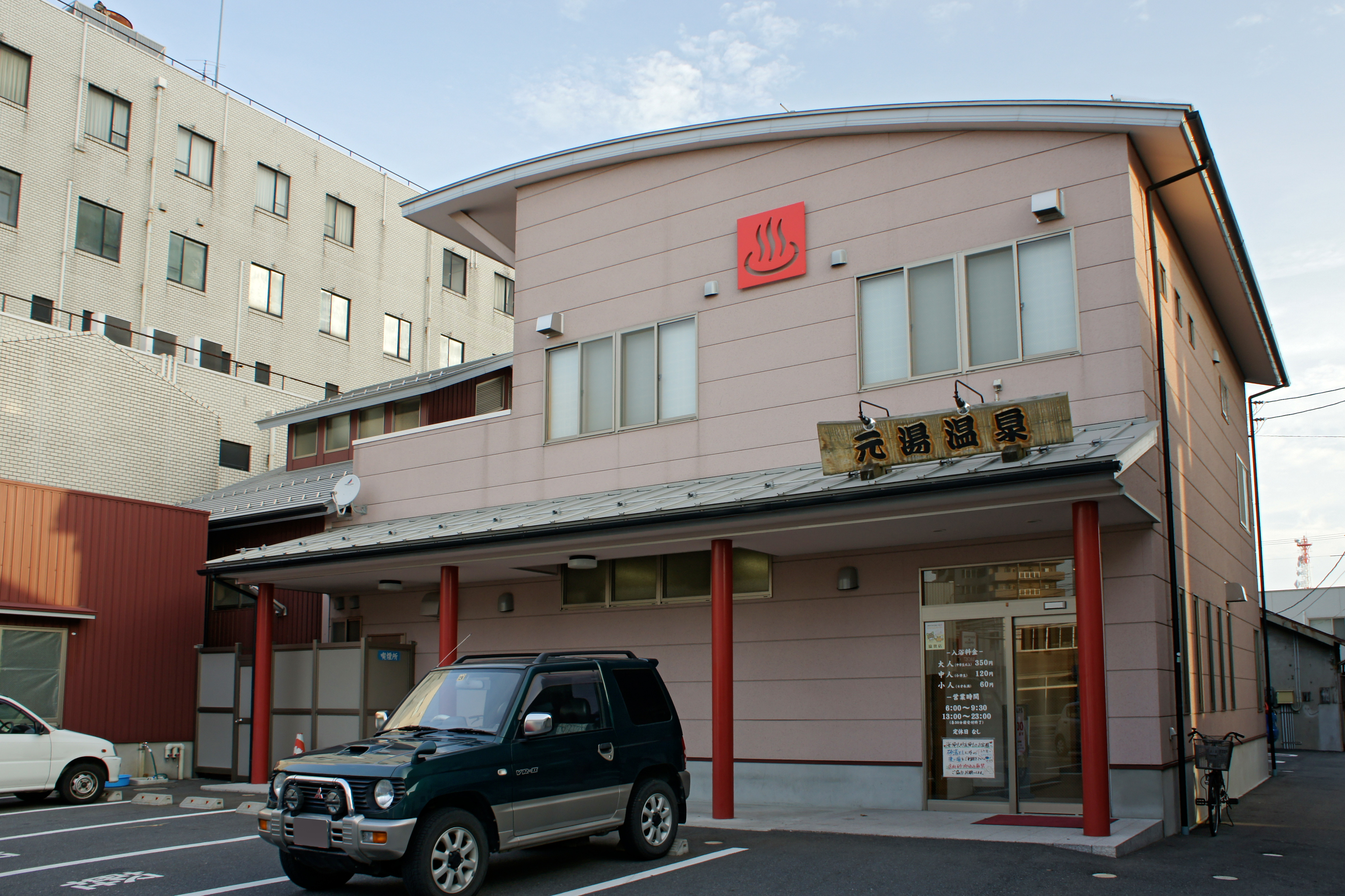 The Motoyu Onsen of Tottori Onsen in Tottori, Tottori prefecture, Japan.